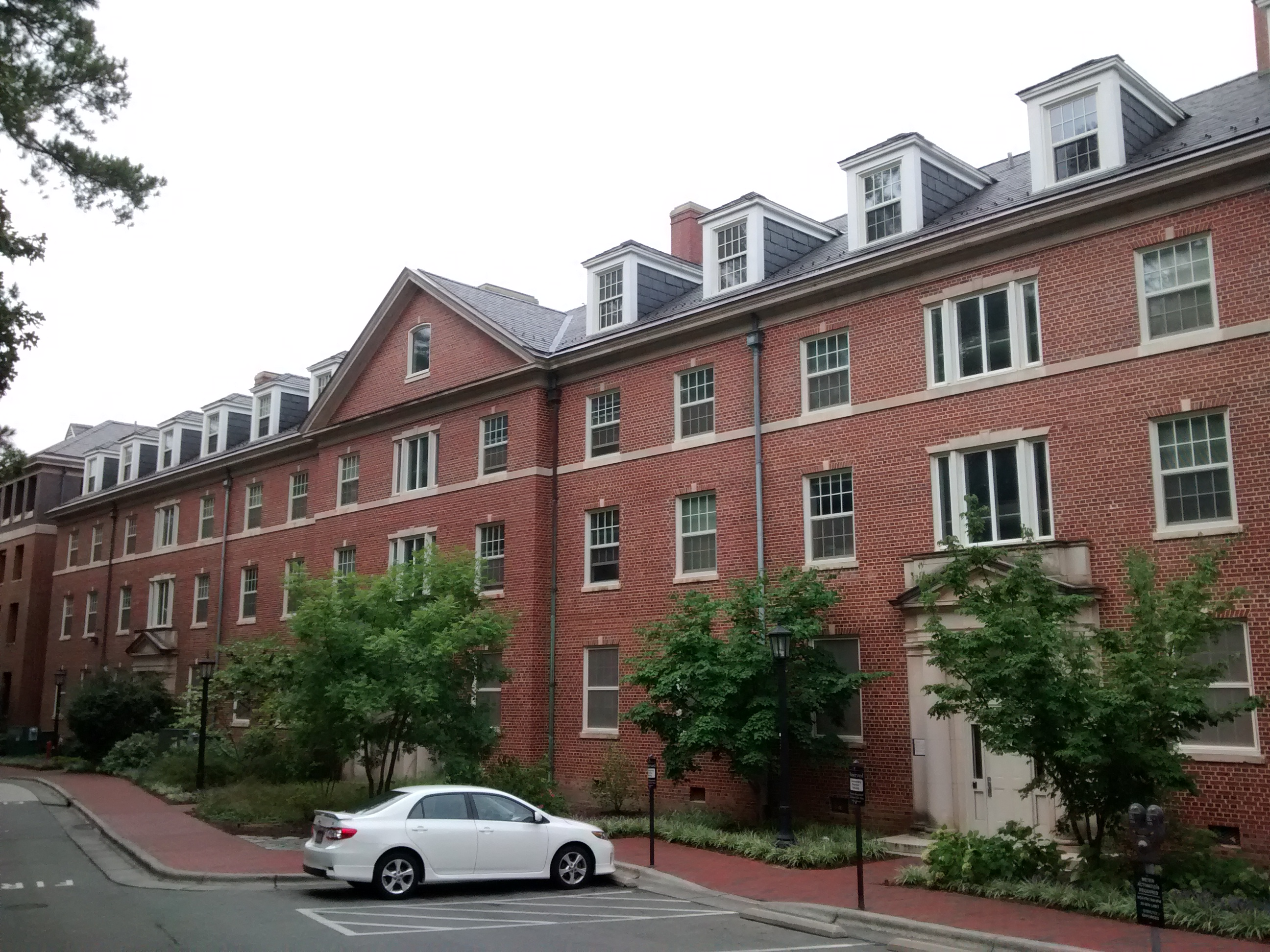 Connor Residence Hall at the University of North Carolina at Chapel Hill.